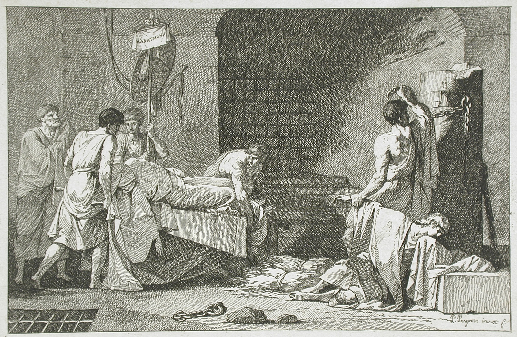 France, 1782 Prints; etchings Etching Graphic Arts Council Fund (AC1998.50.1) Prints and Drawings